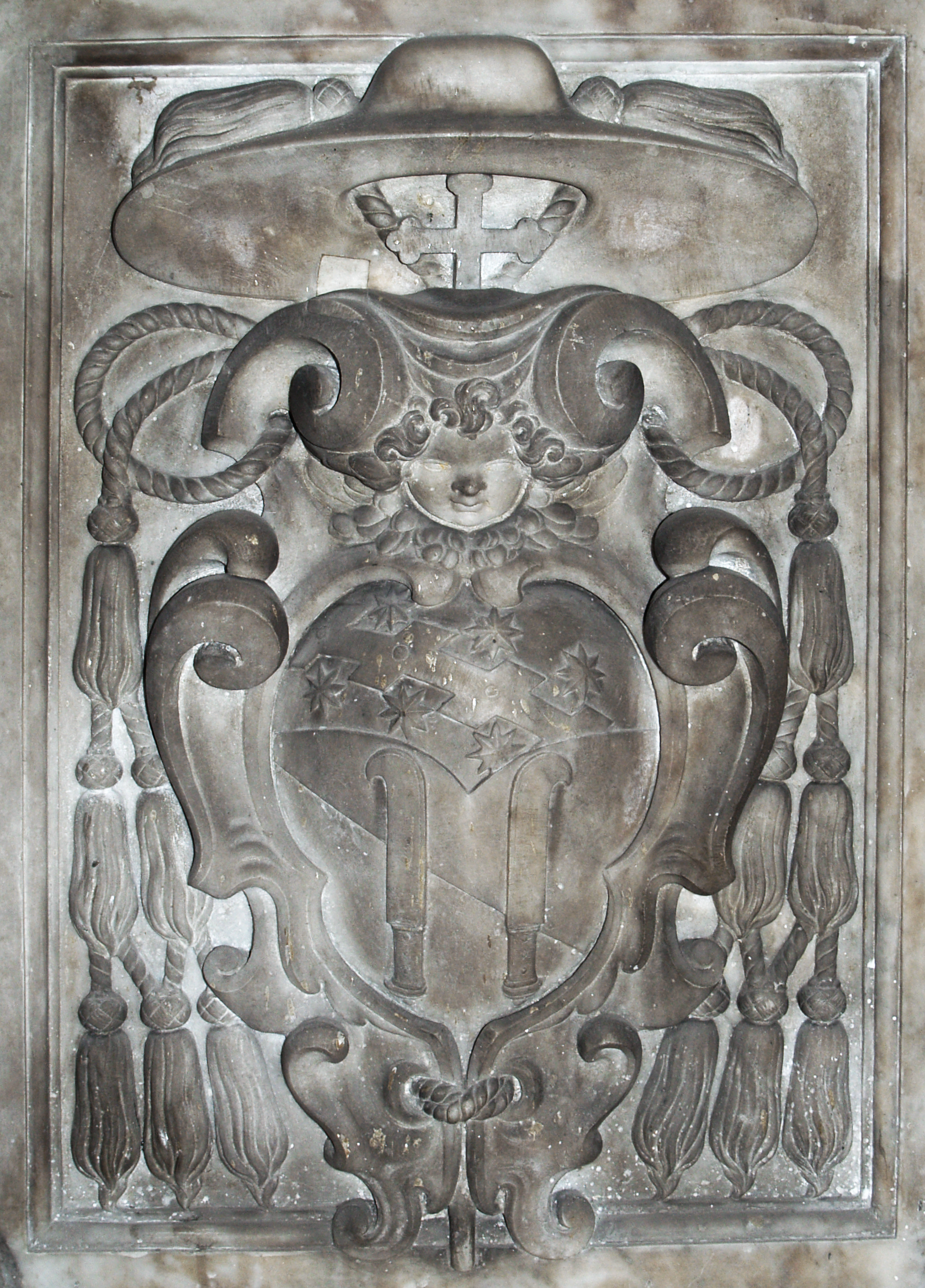 Coat of arms of Francis cardinal Dietrichstein in the church os San Silvestro in Capite, Rome